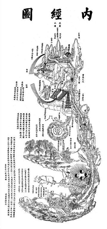 Neijingtu